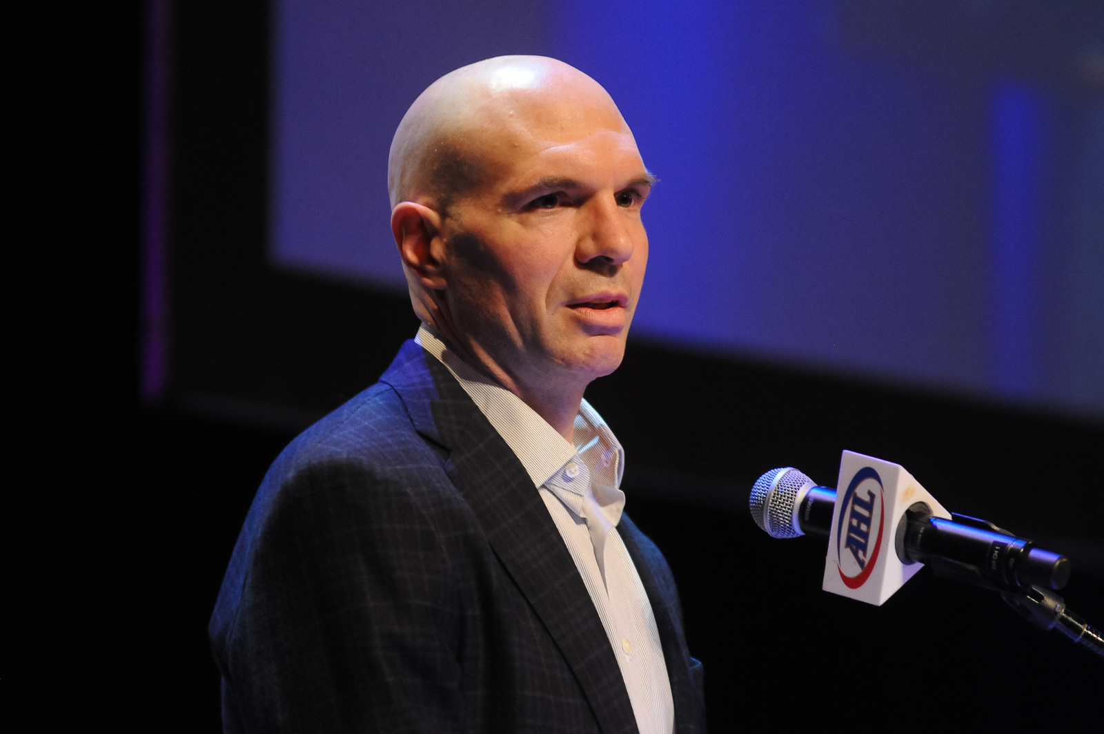 Lindsay A. Mogle/AHL